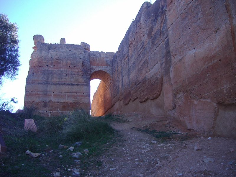 Padern Castle in the Algarve region of Portugal